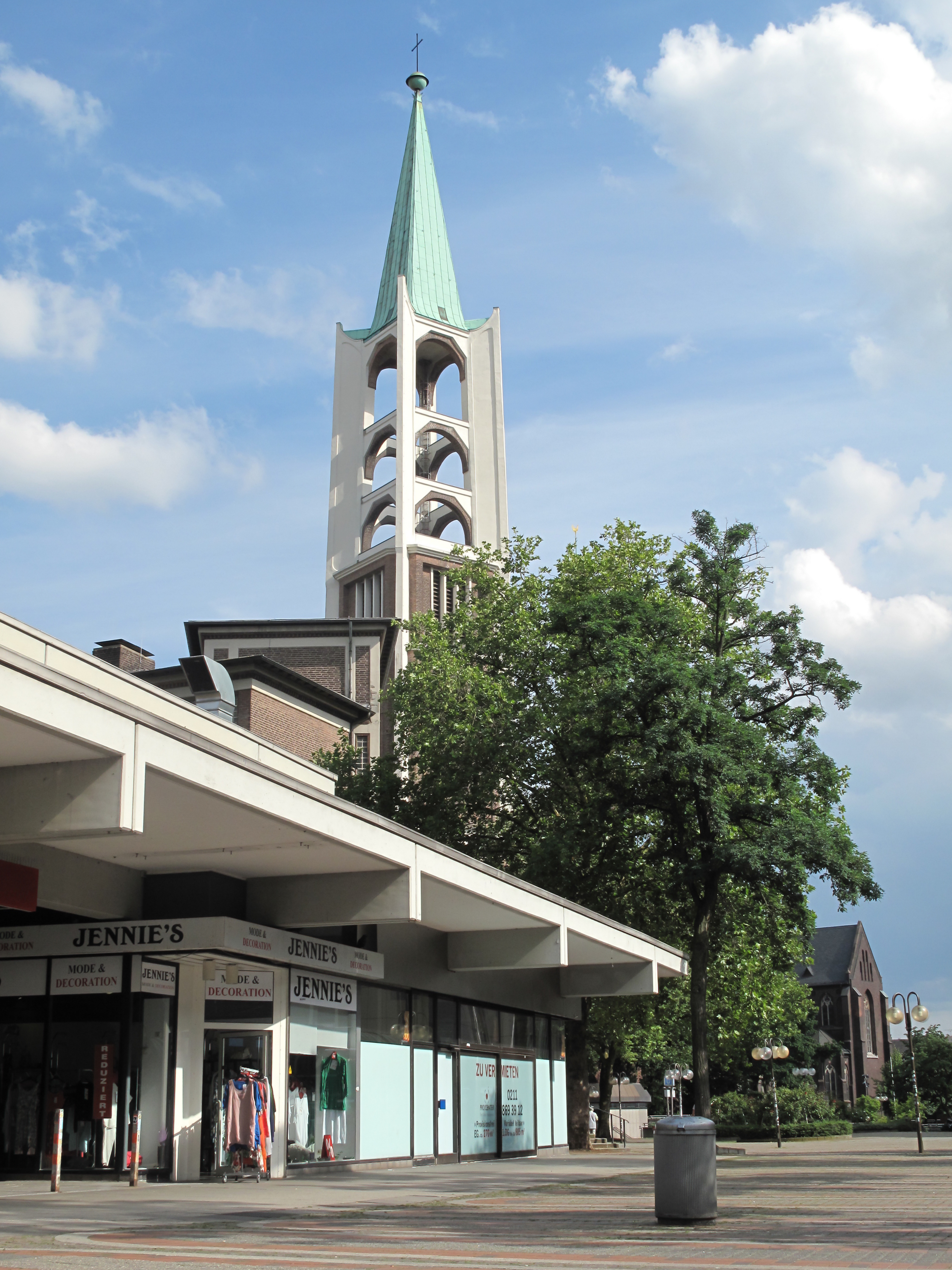 Gelsenkirchen-Mitte, church: die Altstadt Kirche